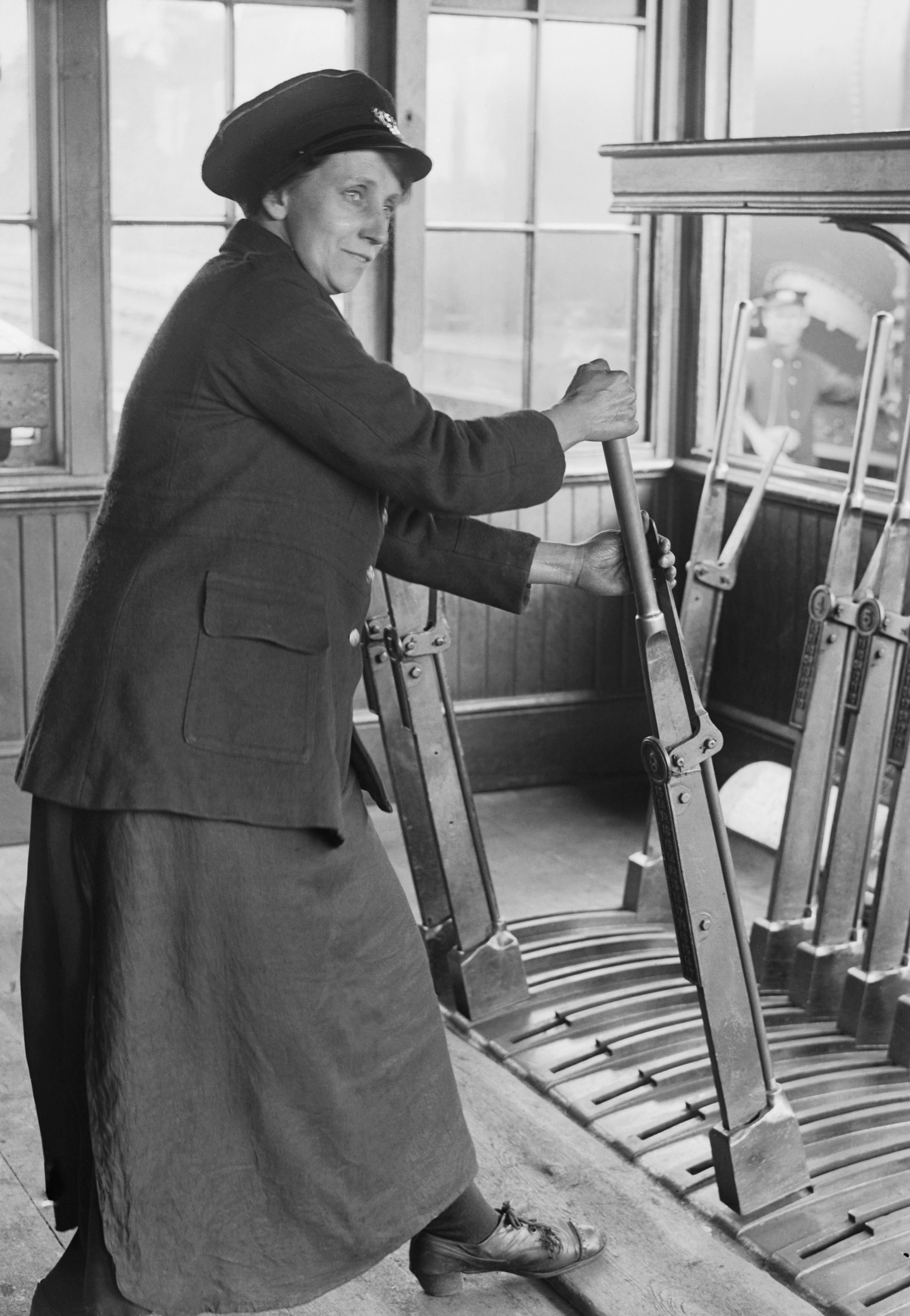 Signalwoman at Annesley Sidings No. 2 Cabin on the Great Central Railway in September 1918